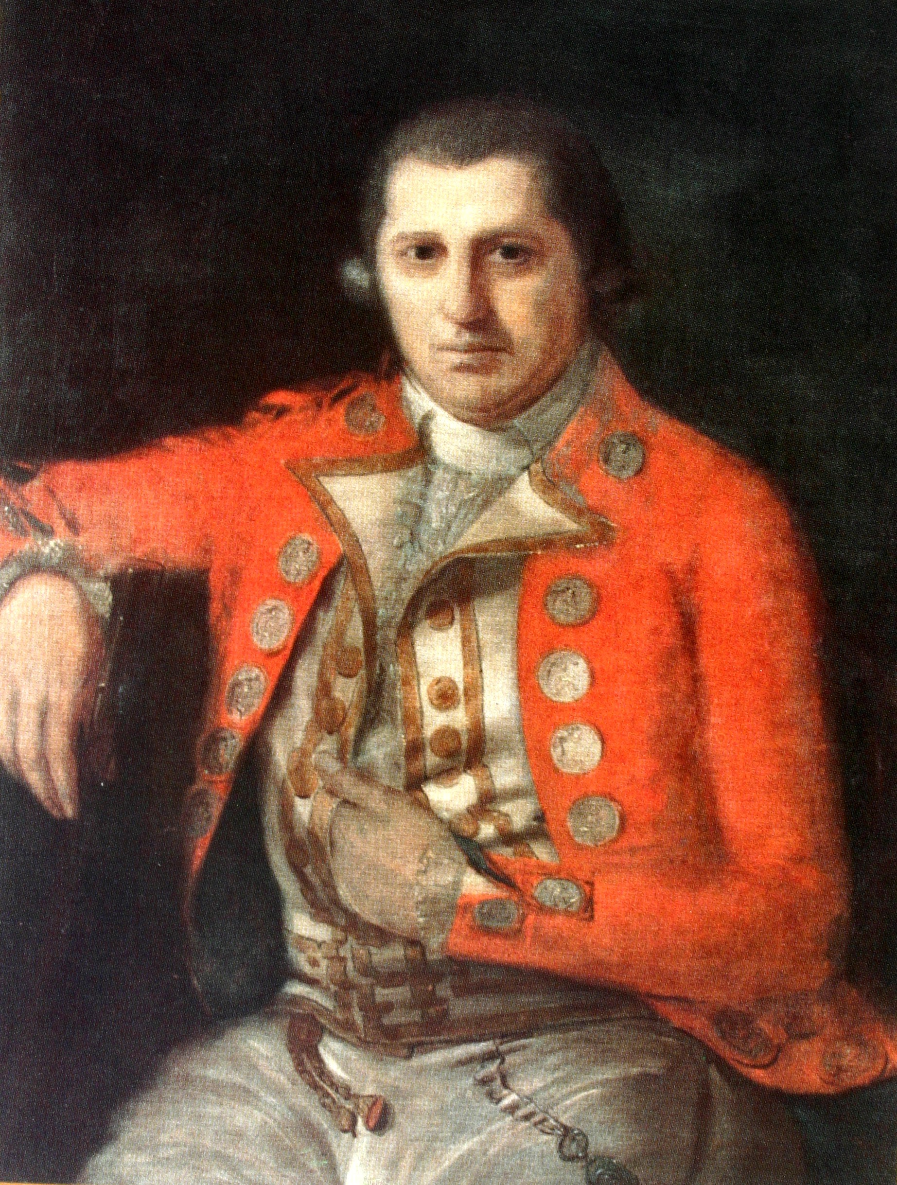 in the uniform of commander of the garrison at the Cape